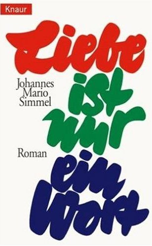 Book cover of Johannes Mario Simmel "Liebe ist nur ein Wort" 1963